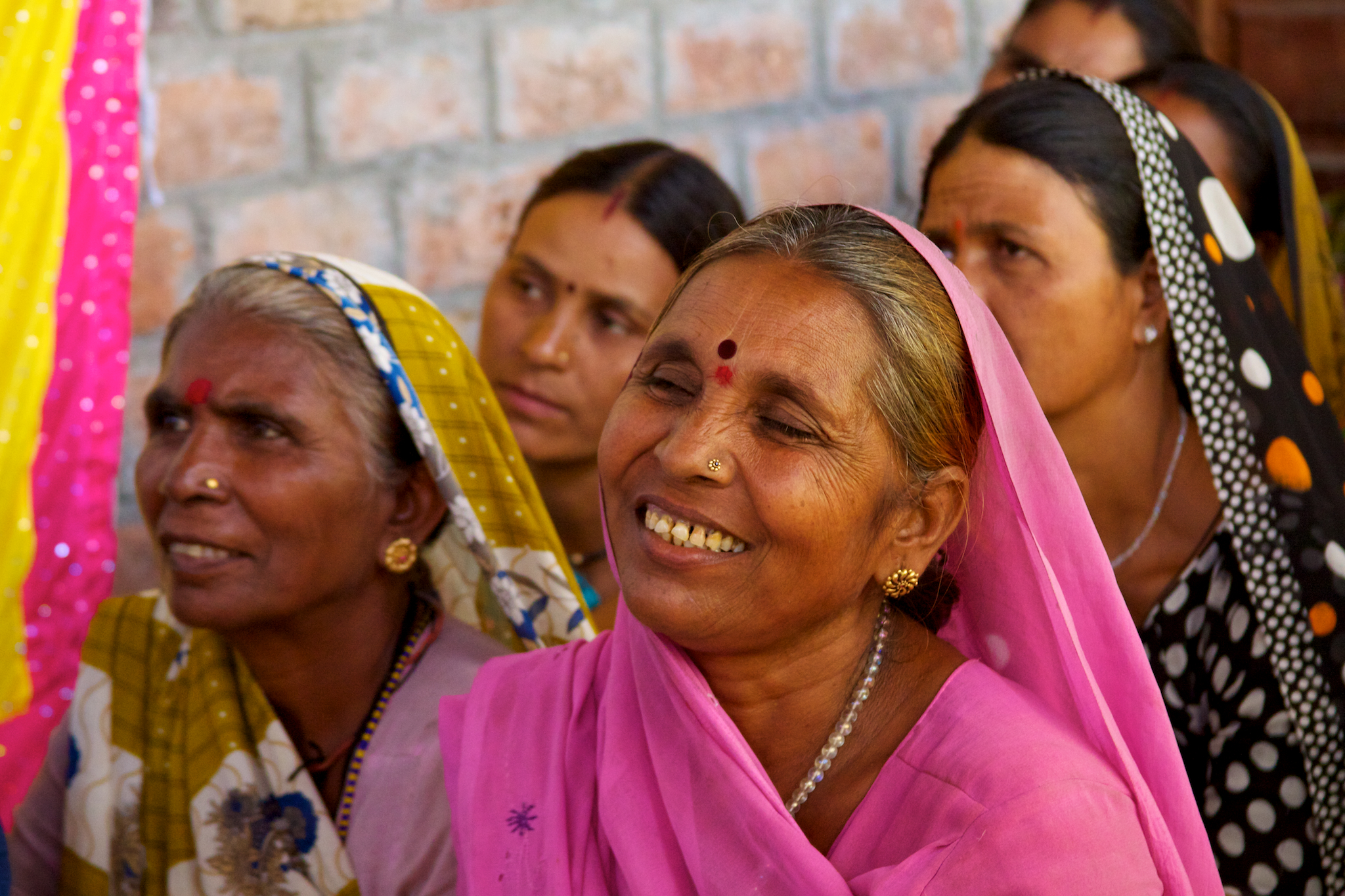 Rural women in Madhya Pradesh attend a skills training programme on dairy farming